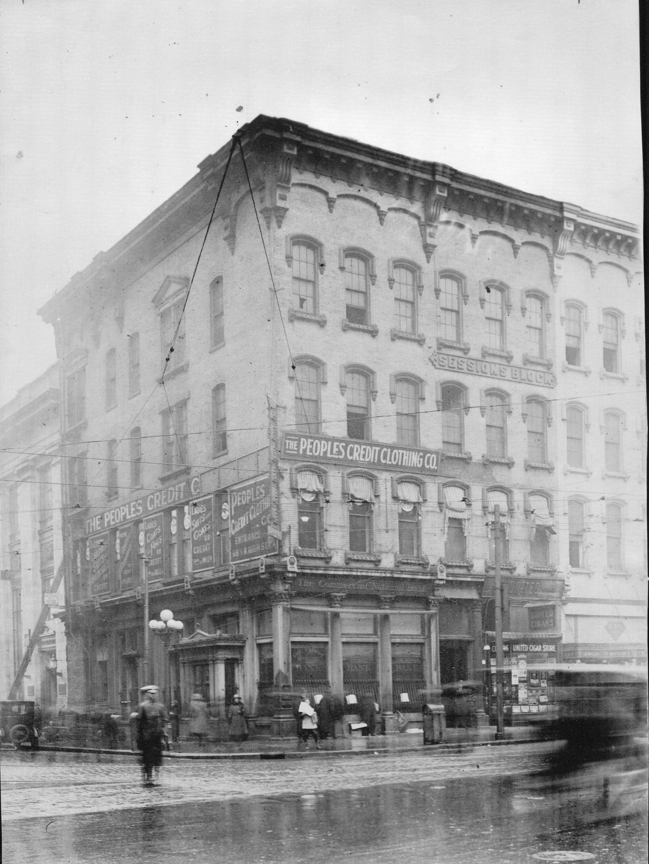 In 1885, the school moved to the Tuller Building at Gay and Fourth St due to the poor ventilation and vapors rising from the Troy Stream Laundry on the floors below the school in the Sessions Block.